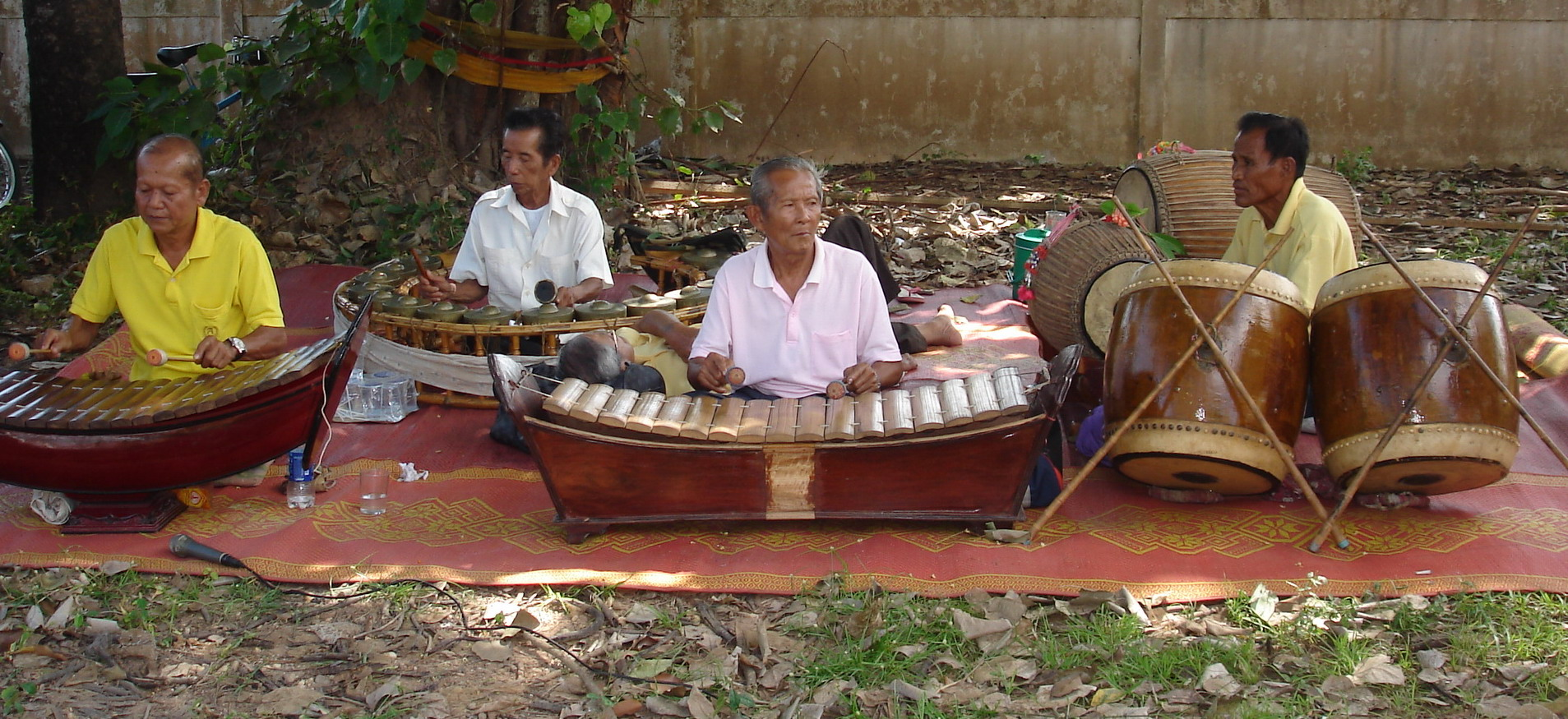 In Uttaradit, Thai band.